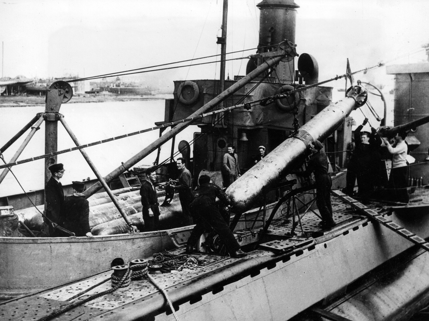 Loading torpedoes to Polish Submarine ORP "Sokół" - British U-class submarine